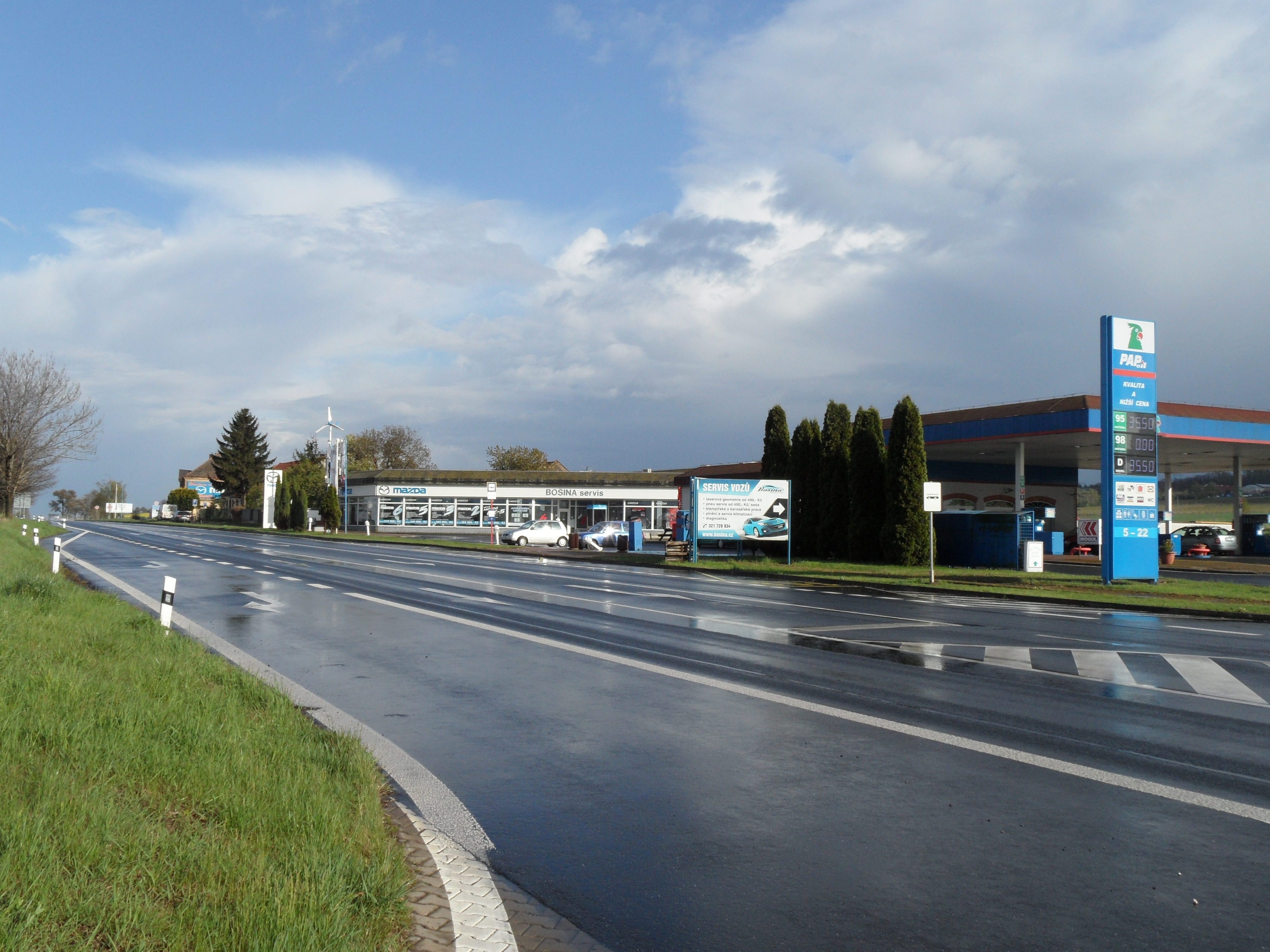 Zlaté Slunce (Brezany I) C. New Commercial Building (South Side: Petrol Station and Auto Service), Kolín District, the Czech Republic.